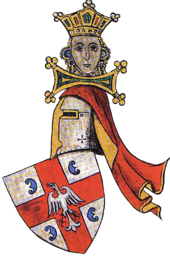 grb loze